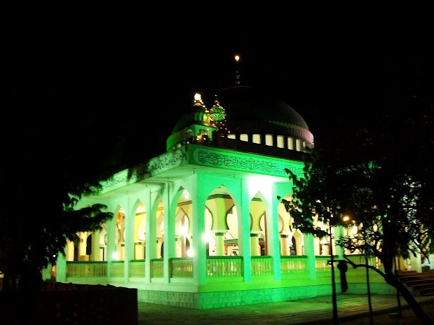 Darga Shareef of Hazrat Nurul Mashaik, Bandlanguda, Hyderabad